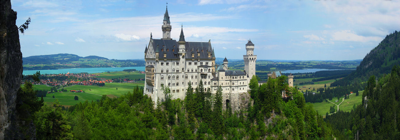 Neuschwanstein_Castle, Bavaria, as seen from the Marienbrücke.